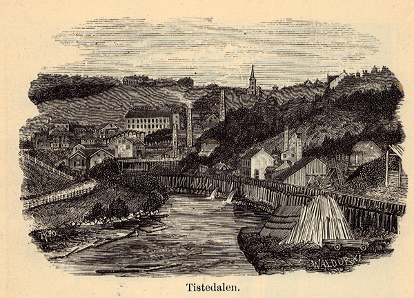 Tistedal, Halden, Norway.